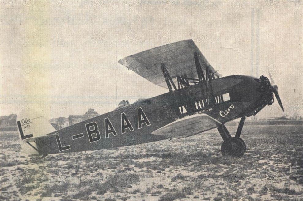 The Aero A.23 was a Czechoslovakian biplane airliner of the 1920s. Engine Walter-Jupiter 420 HP.